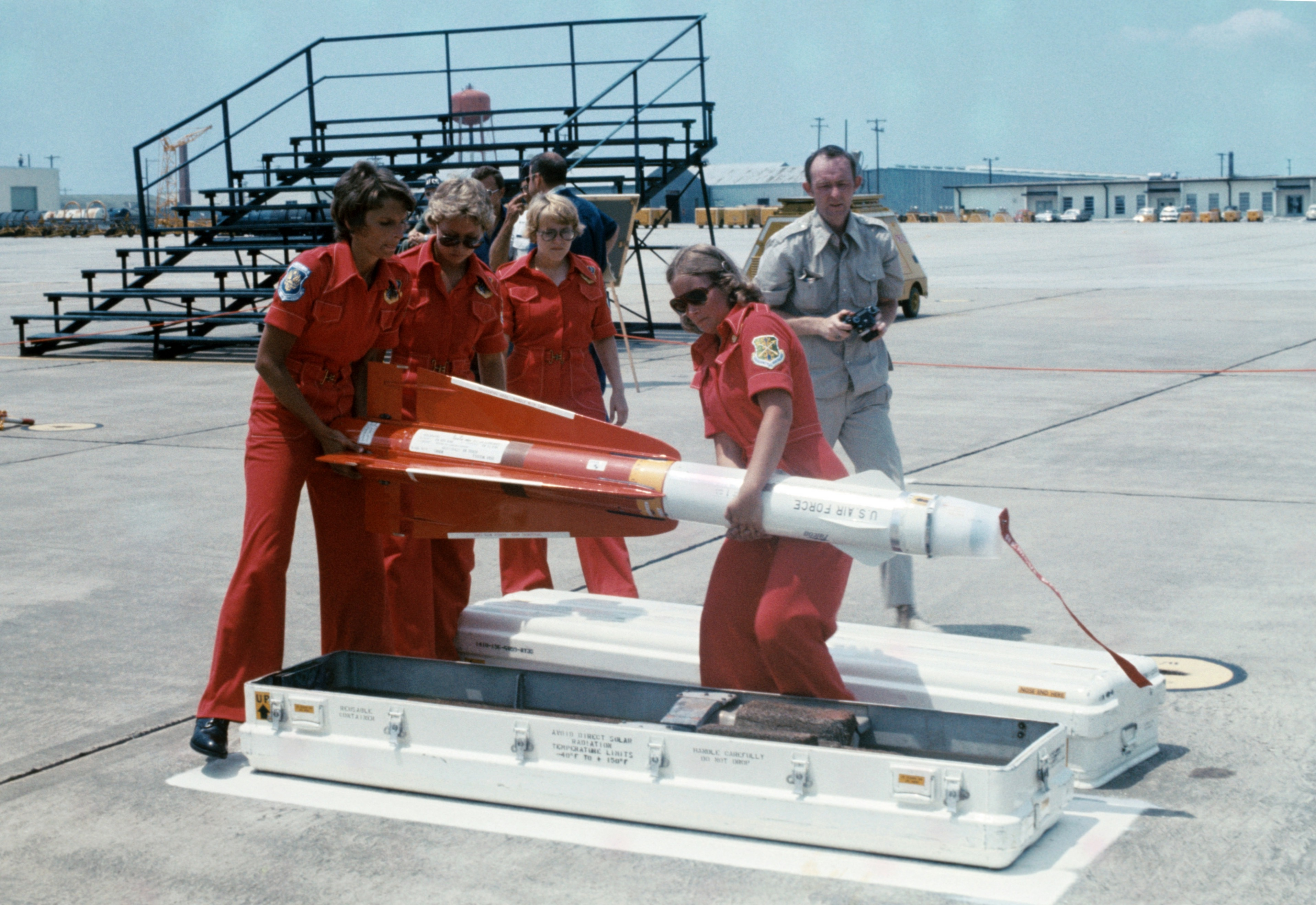 A U.S. Air Force all female weapons load team assigned to the 119th Fighter Group "The Happy Hooligans", North Dakota Air National Guard, handle an inert AIM-4C Falcon air-to-air missile during the "William Tell" weapons competition at Tyndall Air Force Base, Florida (USA), in October 1972. Pictured from left to right, Doreen Thomas, Patricia McMerty, Jacqueline Sanders, Ellen Rising (ranks at the time are unknown).